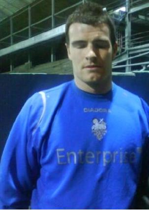 A picture of andrew lonergan just prior to warm up before a wolves game 2007/2008 season